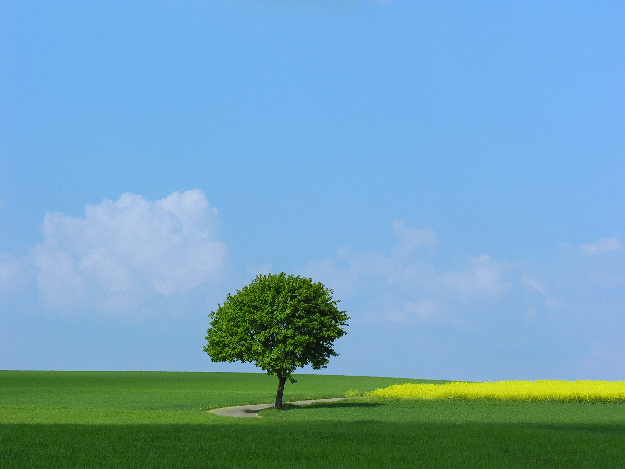 Germany, Baden-Württemberg, solitary tree near Lausheim